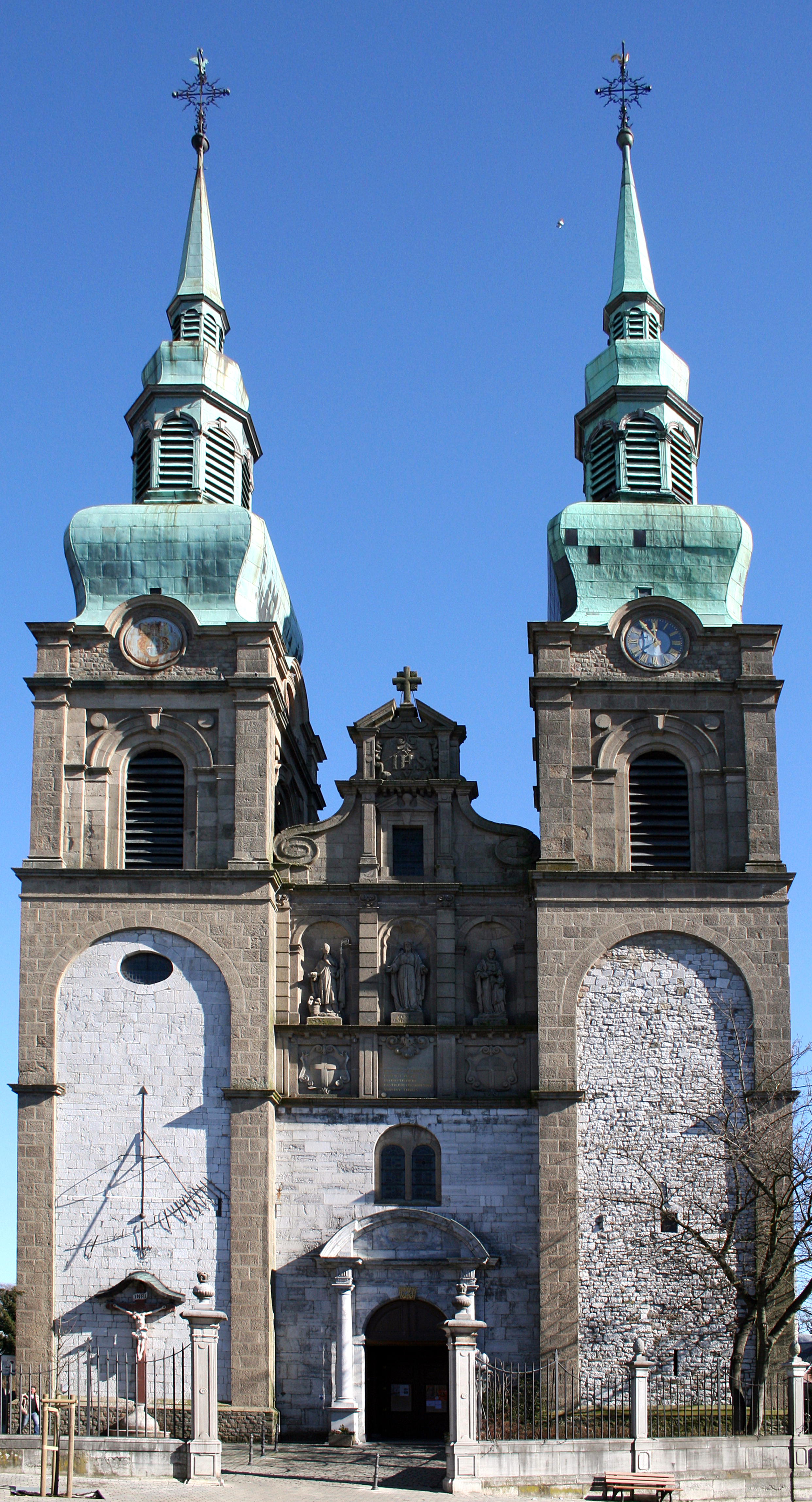 Eupen, St.-Nikolaus-Kirche. - Architect: Laurenz Mefferdatis (* 1677; † 1748).